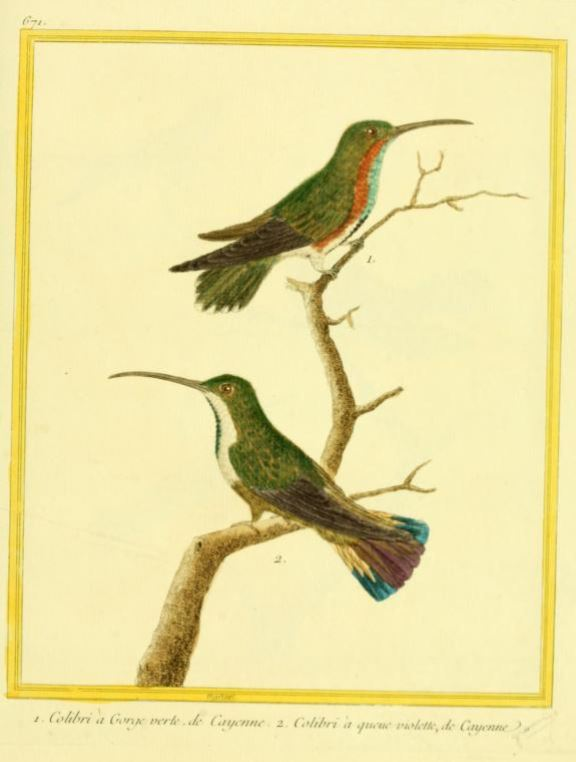 Anthracothorax viridigula = Colibri à cravatte verte ♂ Anthracothorax viridigula = Colibri à queue violette ♀